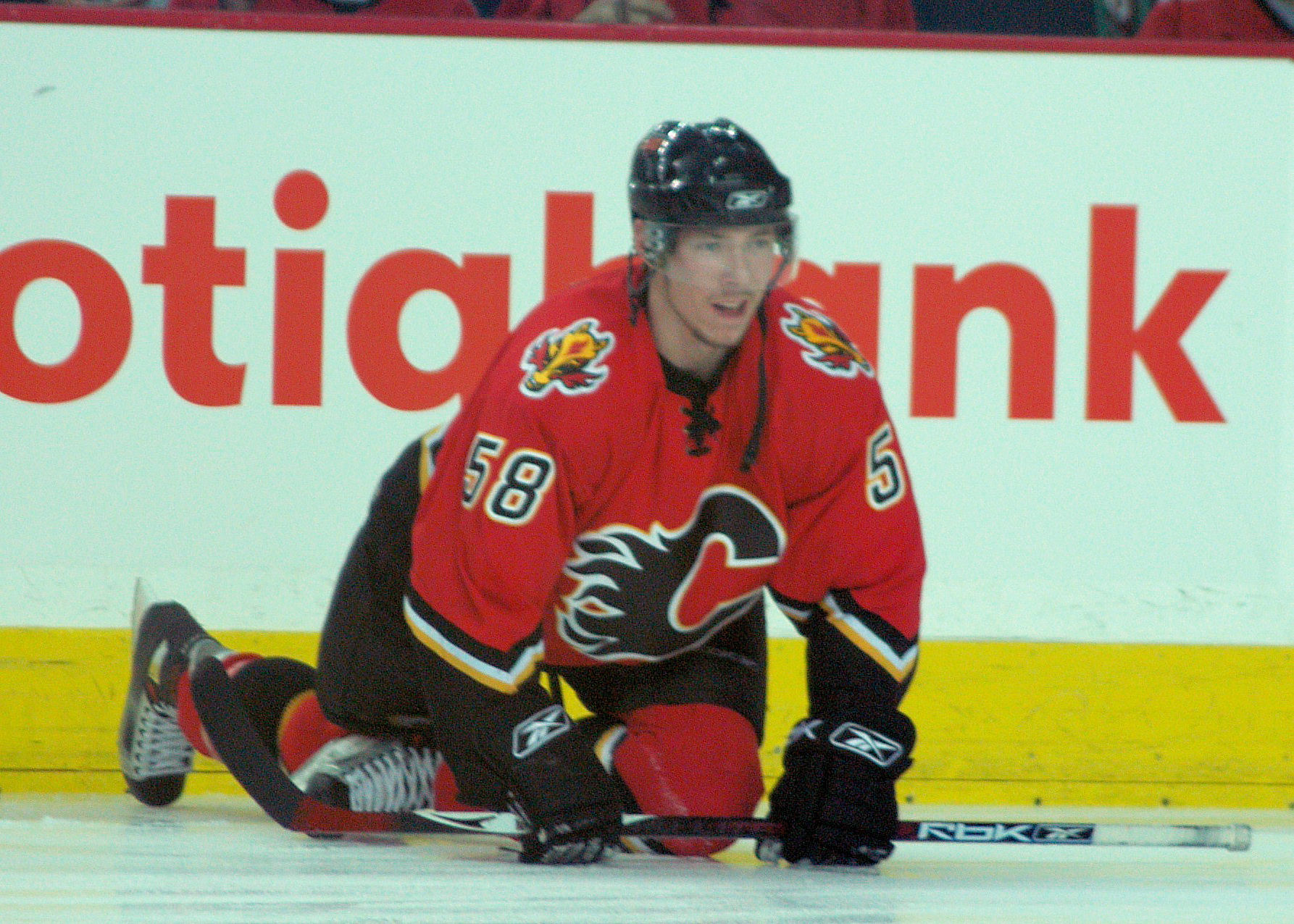 David Moss stretching before a playoff game.